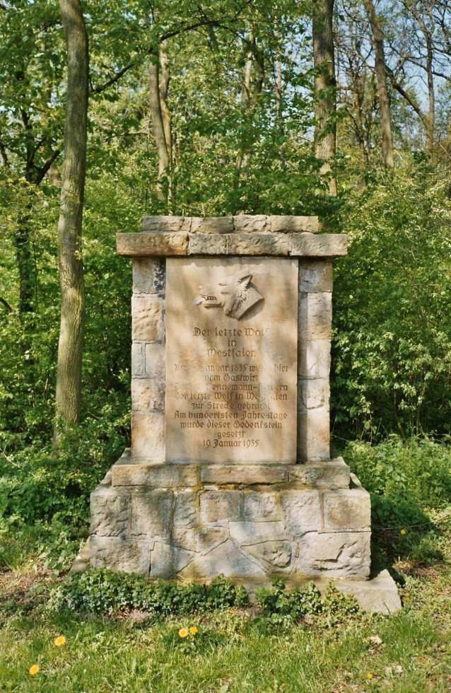 Monument for the last free wolf near Herbern in Westphalia, Germany.